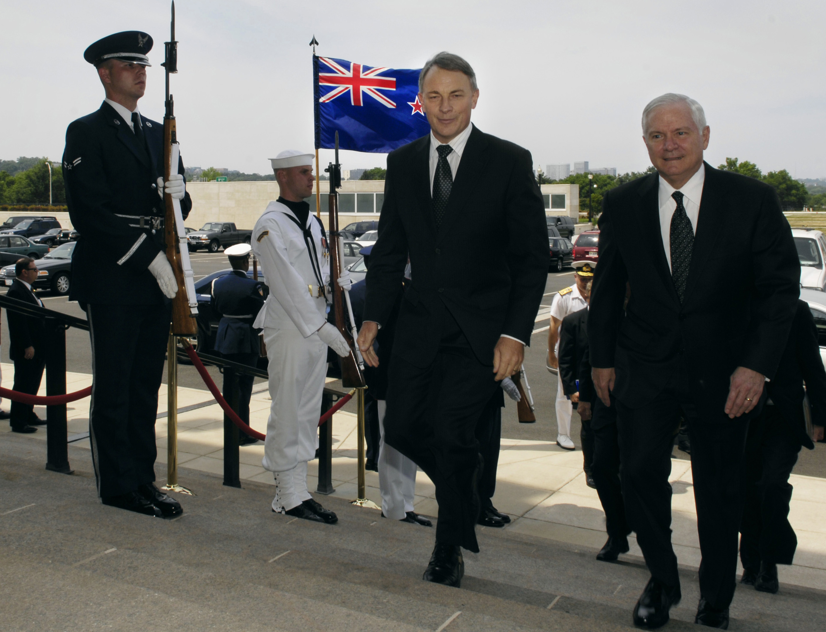 Secretary of Defense Robert M. Gates and New Zealand Minister of Defense Phil Goff walk through an honor cordon and into the Pentagon May 11, 2007.